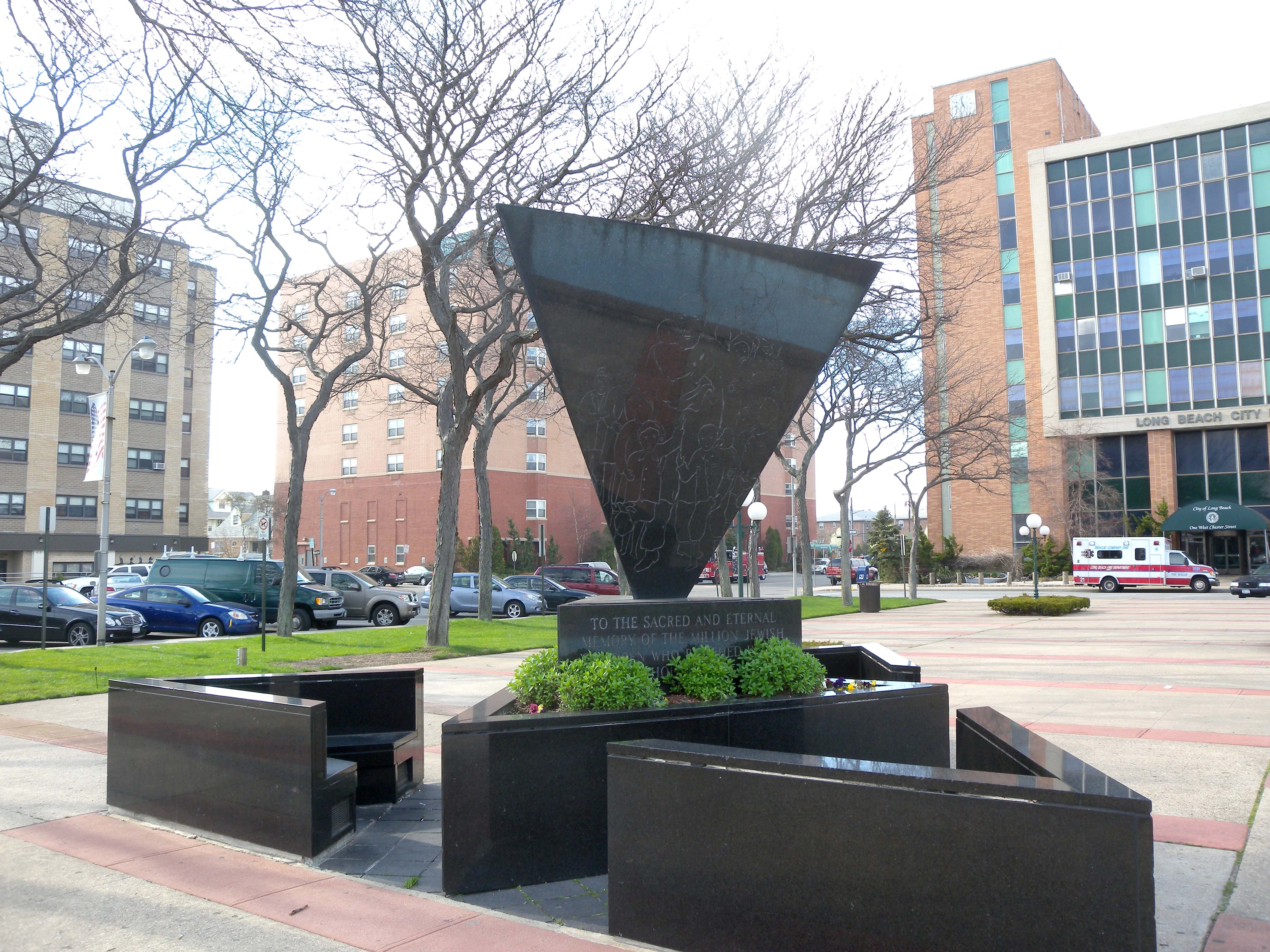 Looking northwest at Holocaust memorial in front of Long Beach City Hall on a partly sunny afternoon.